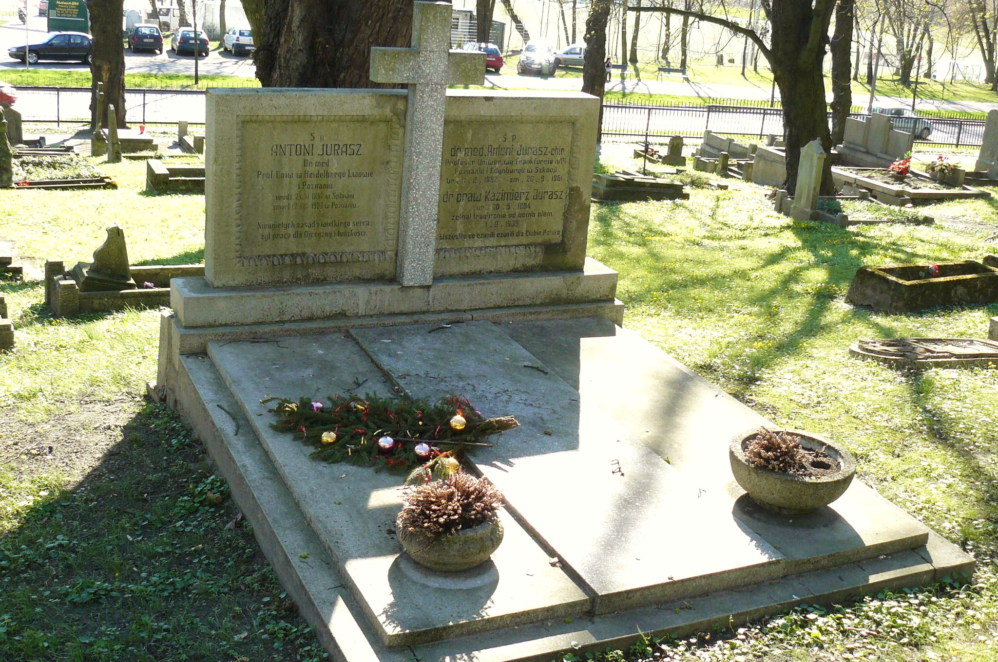 Jurasz Family Tomb - Poznan.